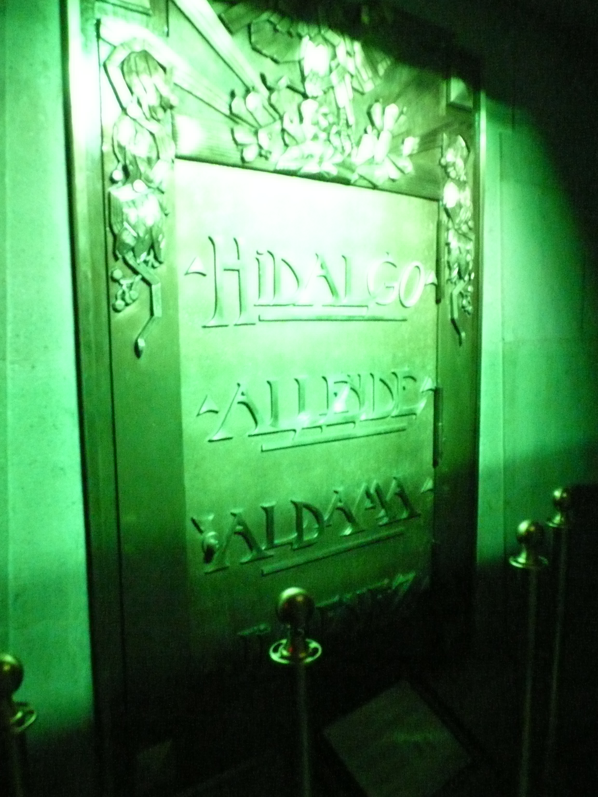 Puerta del nicho donde reposan los restos de Hidalgo, Allende, Aldama y Jimenez en el Monumento a la Independencia,on.